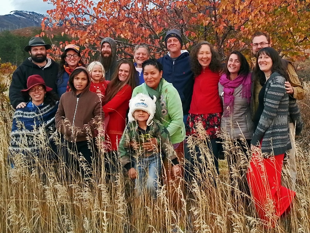 Photo by Joe Brodnik